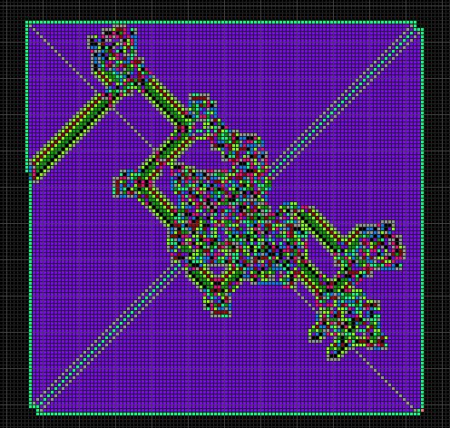 The n-color extension of Langton's Ant for the move sequence LRRRRRLLR, at 70273 generations.